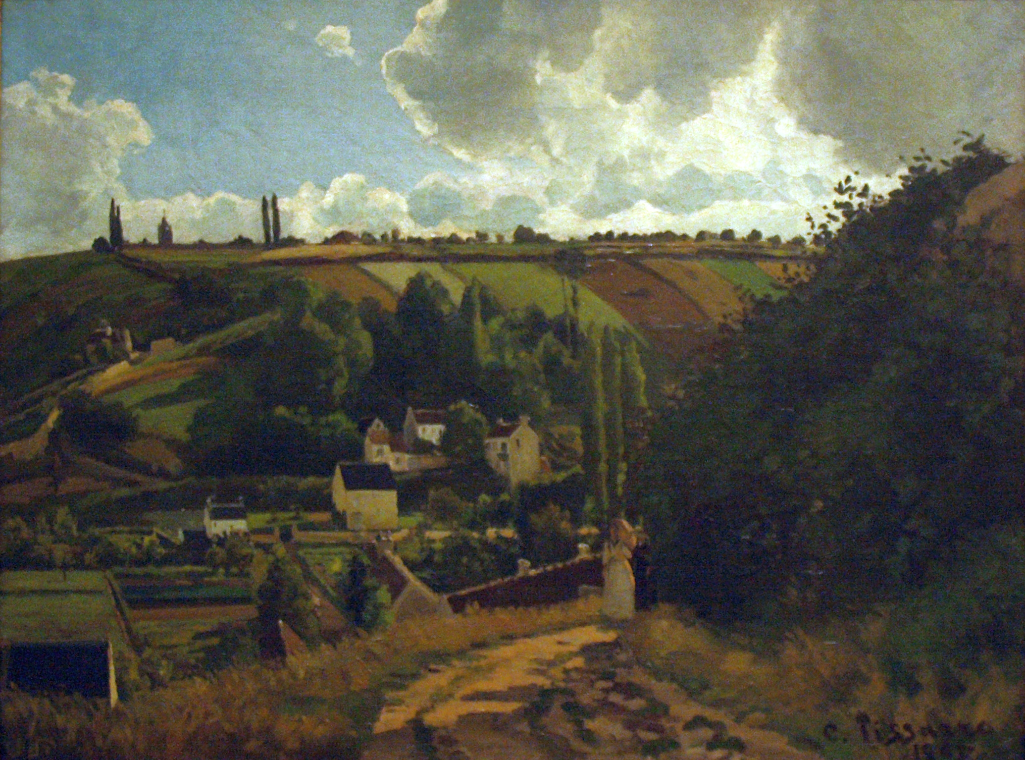 Painting of Pissarro in the MET, NY